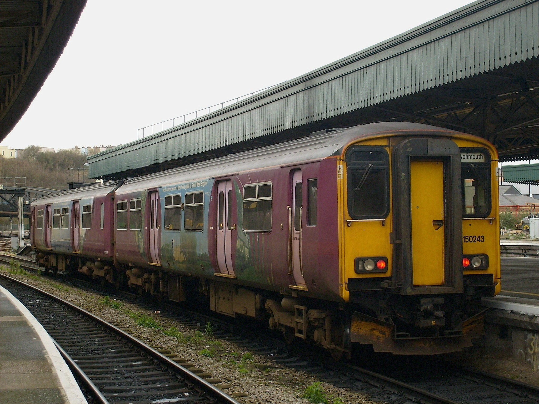 Wessex Trains Class 150 No. 150243 at Bristol Temple Meads